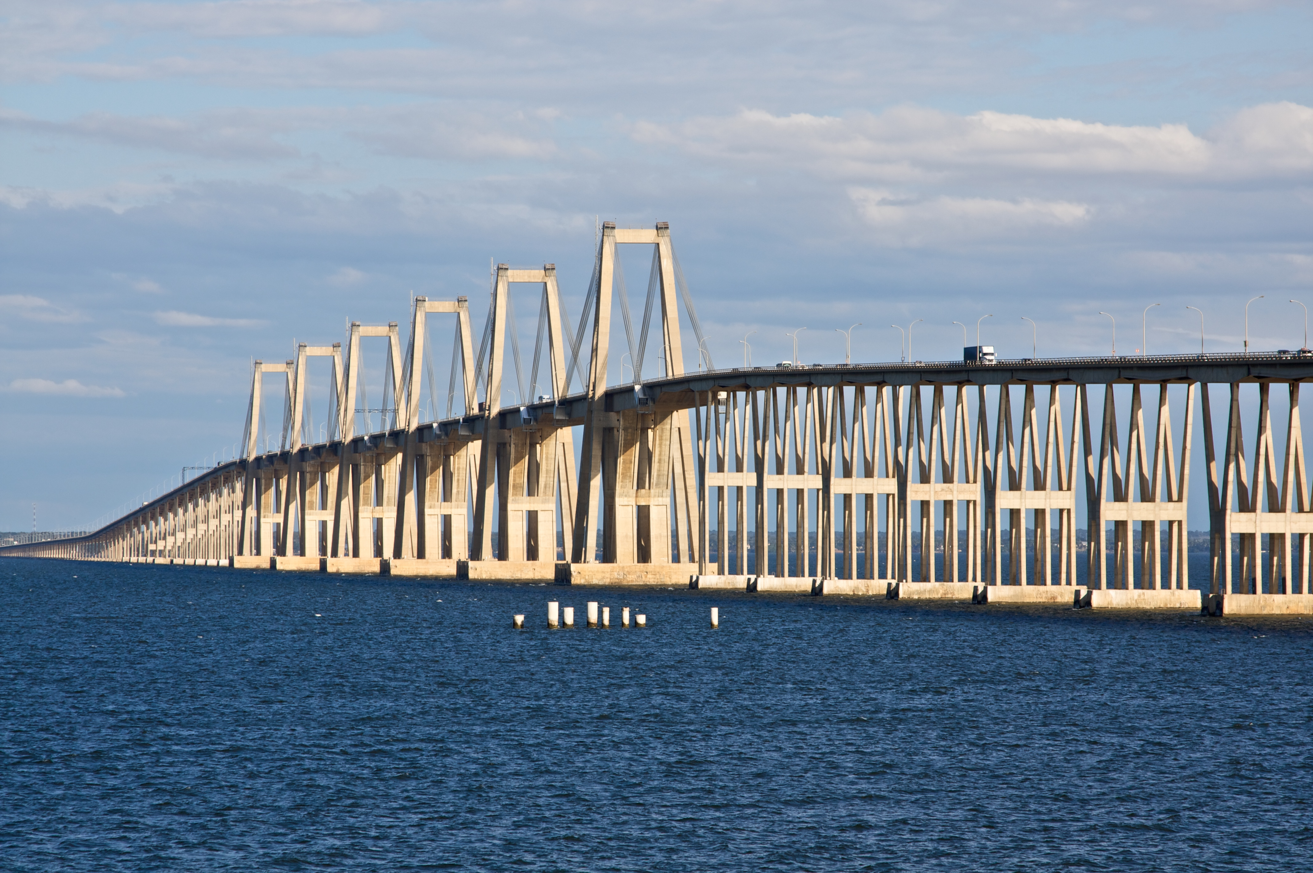 General Rafael Urdaneta Bridge view from the lake to Cabimas side by italian engineer: Riccardo Morandi